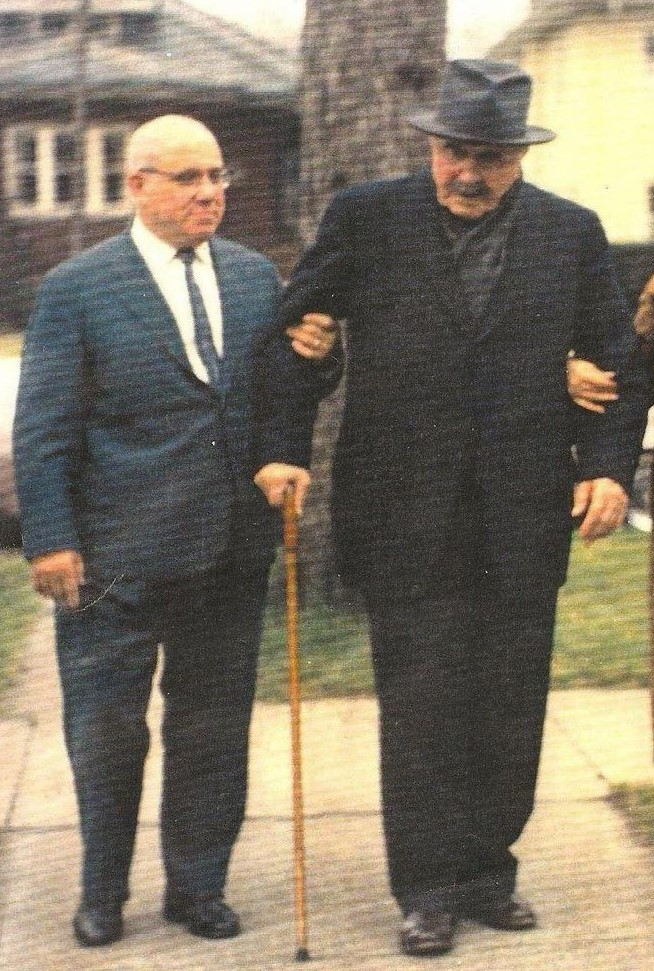 Miguel Spina and Louis Francescon in Chicago in 1963, during a Spina family's mission trip.